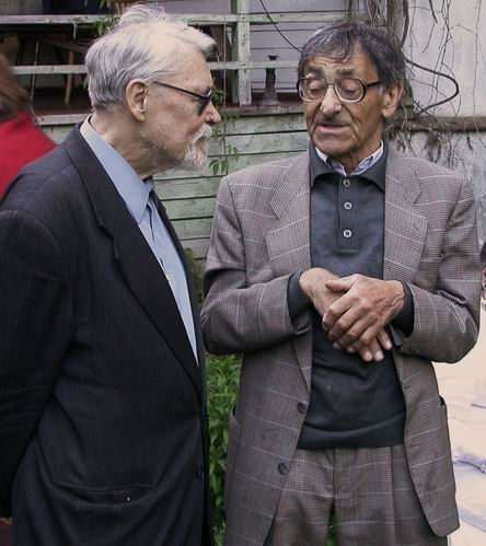 Vladimir Toporov, russian philologist & Georgy Dm. Gatchev (1929-2008), russian philologist and philosopher, photo: Leonid Latynin (with the personal permission of the author — I give this photo with a free license, subject to attribution in the following form: «photo: Leonid Latynin, iuli 2003» ), date is approximate: 2003, summer, Peredelkino (near Moscow)